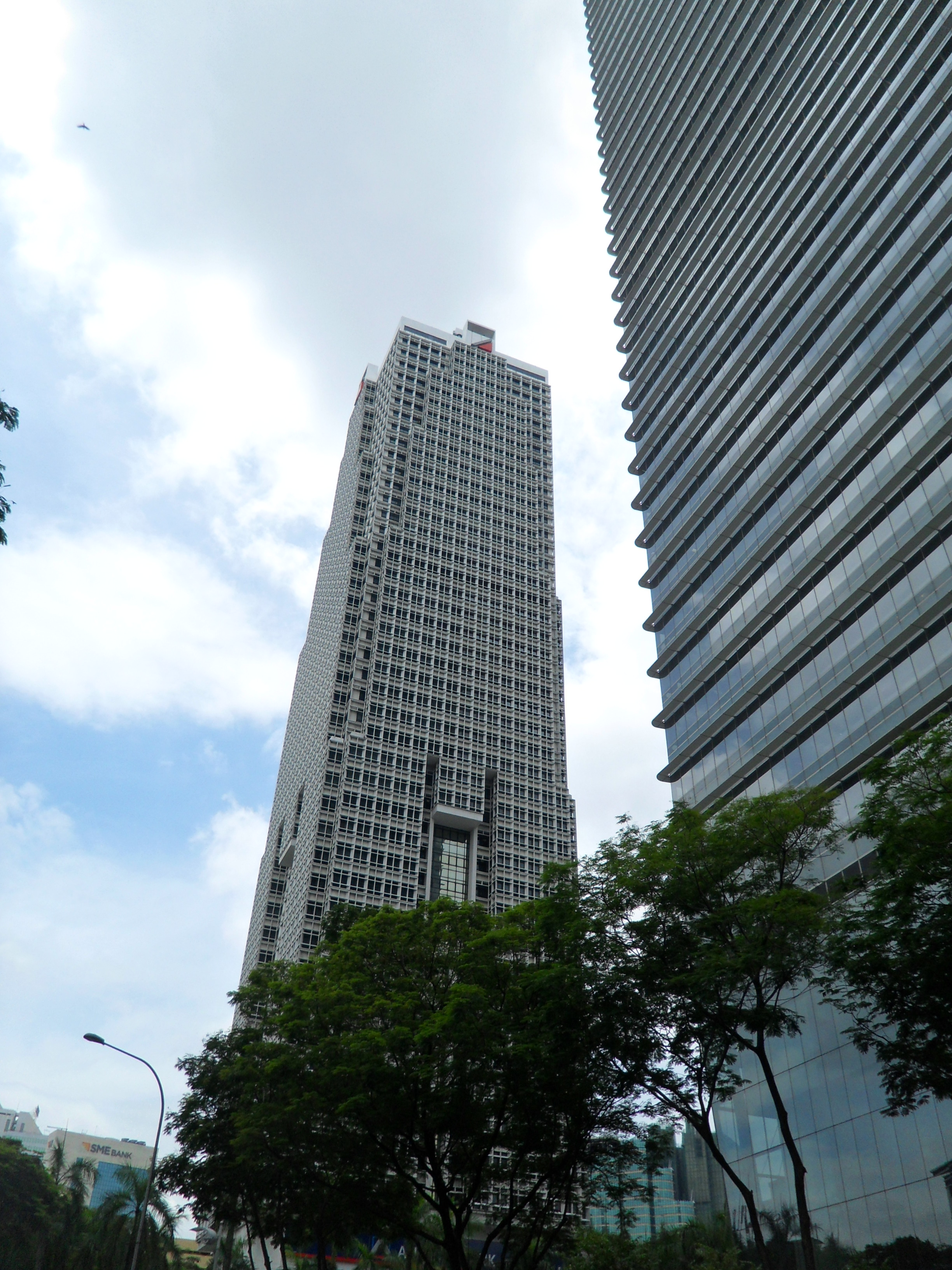 Menara Multi Purpose and Cap Square, Jalan Munshi Abdullah, Kuala Lumpur. Taken 6 Sep 2013.